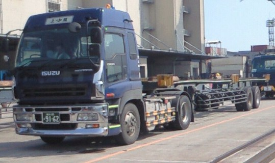 ISUZU GIGAMAX 2003 Kamigumi Tokyo container tarminal.Yokohama100 ka 91-62